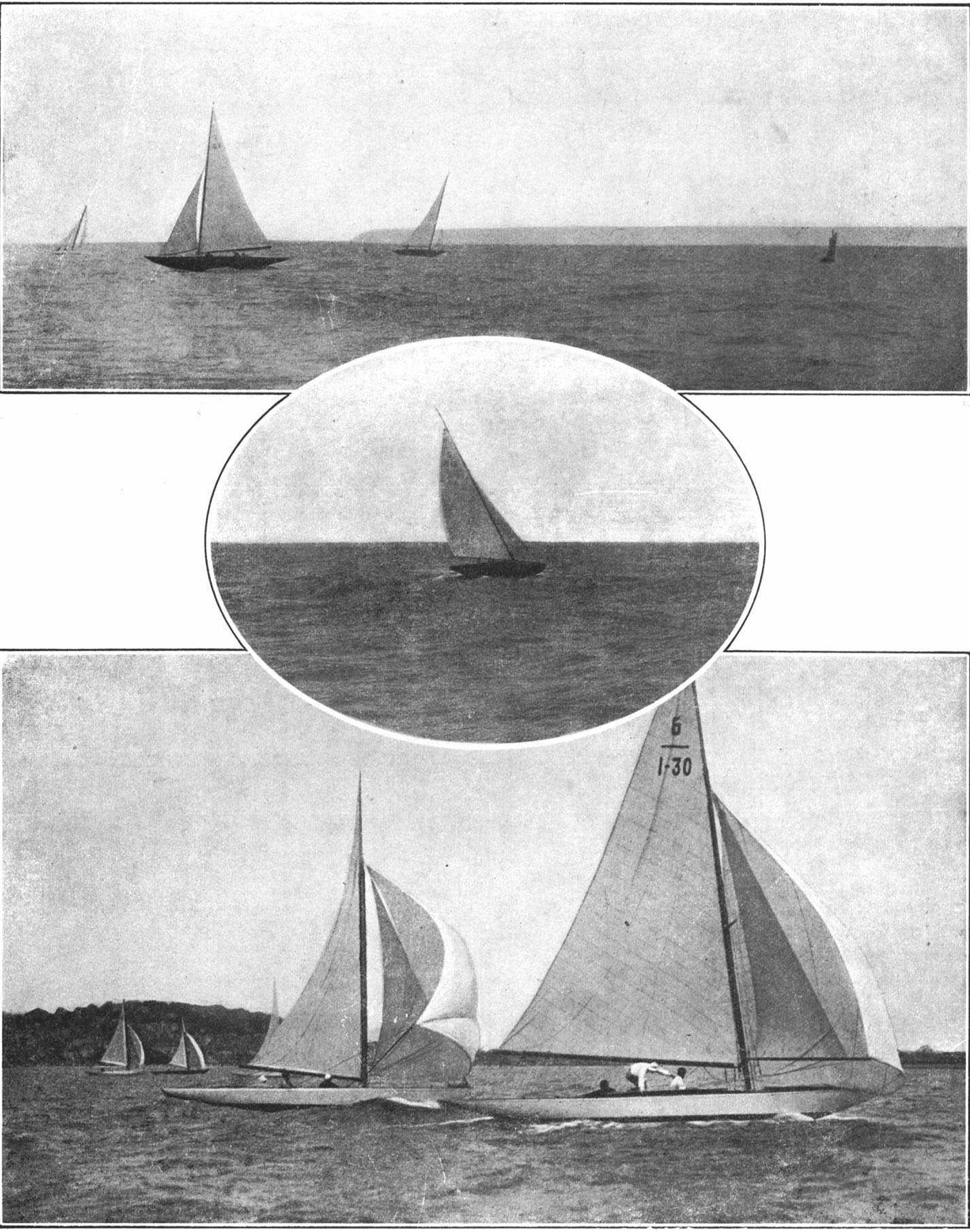 6 Metres at the 1924 Olympics